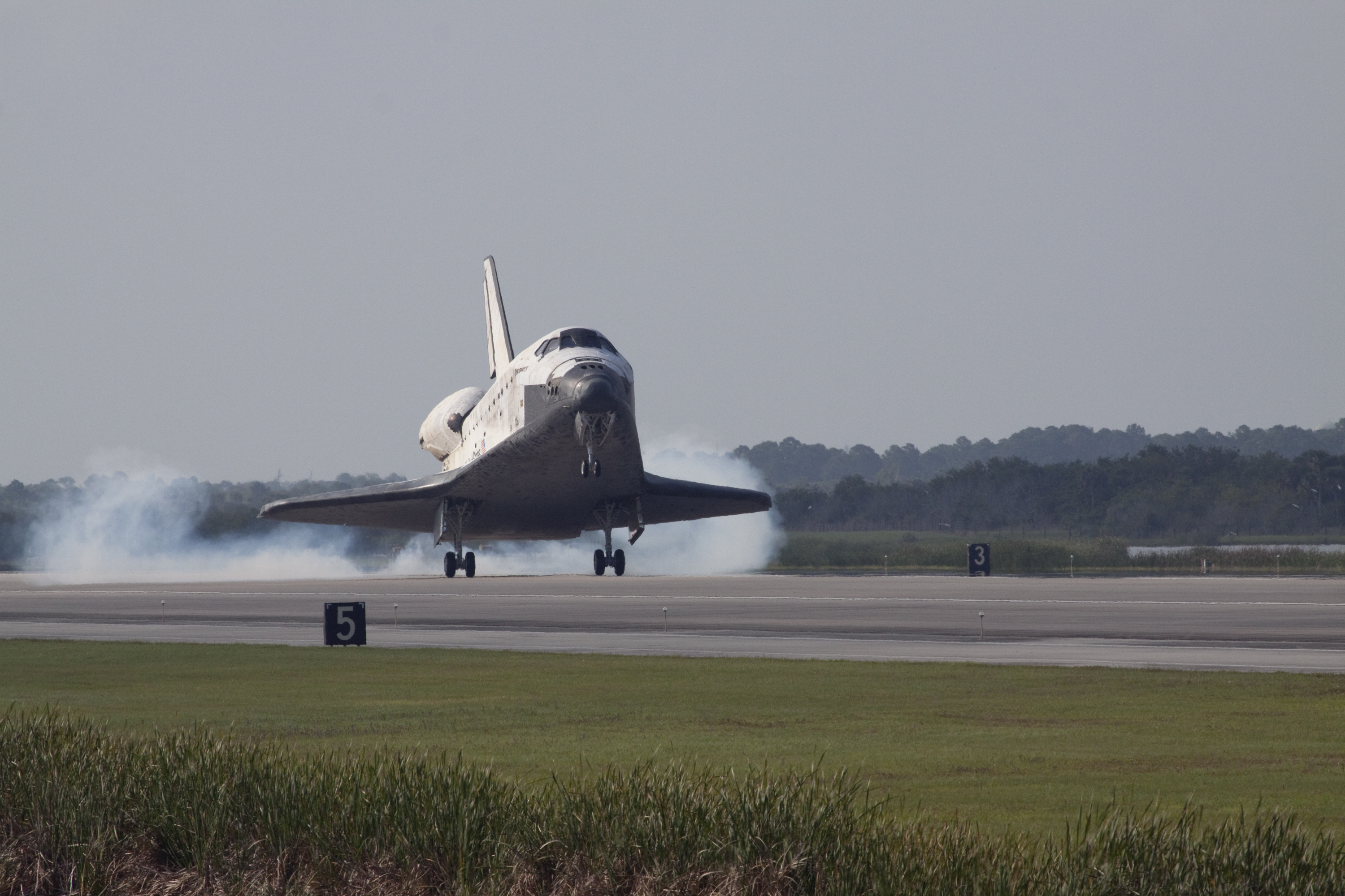 CAPE CANAVERAL, Fla. - Space shuttle Discovery lands on Runway 33 at the Shuttle Landing Facility at NASA's Kennedy Space Center in Florida at 9:08 a.m. EDT, completing the 15-day STS-131 mission to the International Space Station. Main gear touchdown was at 9:08:35 a.m. EDT followed by nose gear touchdown at 9:08:47 a.m. and wheelstop at 9:09:33 a.m. Aboard are Commander Alan Poindexter; Pilot James P. Dutton Jr.; and Mission Specialists Rick Mastracchio, Clayton Anderson, Dorothy Metcalf-Lindenburger, Stephanie Wilson and Naoko Yamazaki of the Japan Aerospace Exploration Agency. The seven-member STS-131 crew carried the multi-purpose logistics module Leonardo, filled with supplies, a new crew sleeping quarters and science racks that were transferred to the International Space Station's laboratories. The crew also switched out a gyroscope on the station’s truss, installed a spare ammonia storage tank and retrieved a Japanese experiment from the station’s exterior. STS-131 is the 33rd shuttle mission to the station and the 131st shuttle mission overall. For information on the STS-131 mission and crew, visit